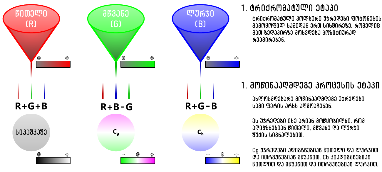 The modern model of color perception as it occurs in the retina.